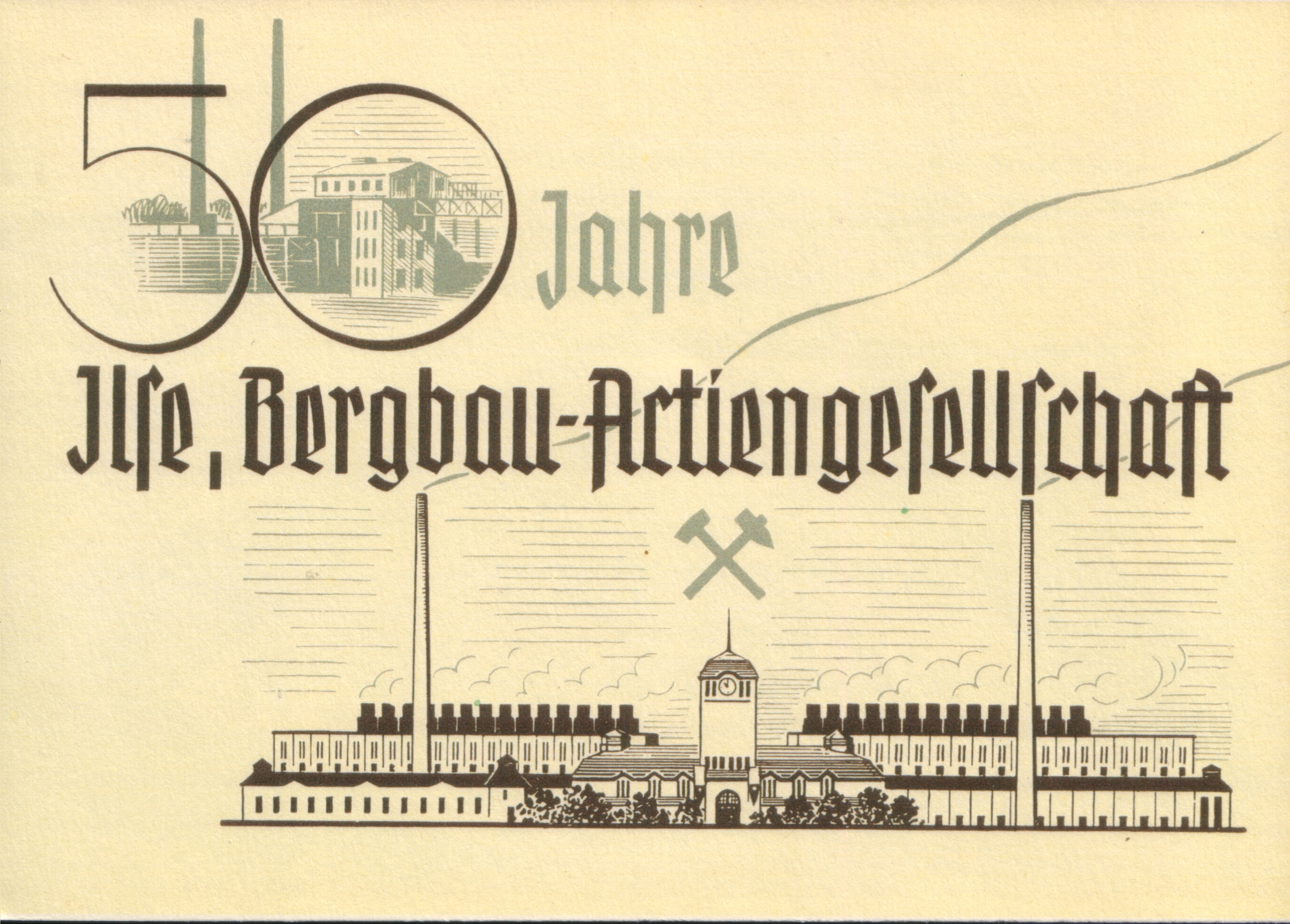 Advertising work on occasion of the 50th jubilee of Ilse Bergbau AG